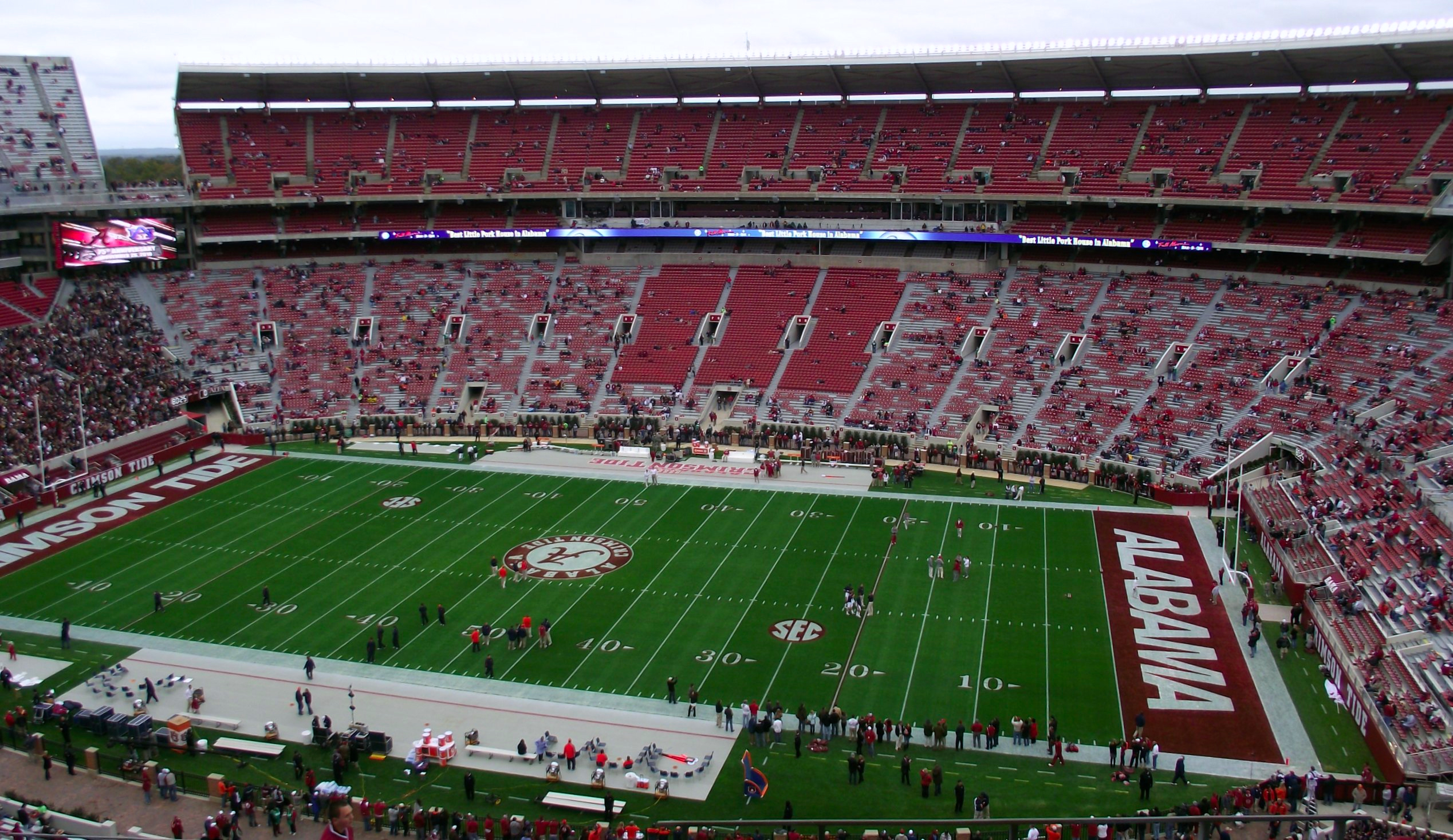 Facing the western stands of Bryant-Denny Stadium